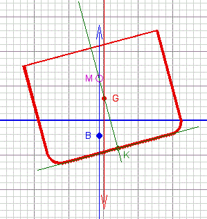 Cross section of the hull of a freighter, heeled 15 deg., with center of buoyancy (B), center of gravity (G) and metacentre (M)